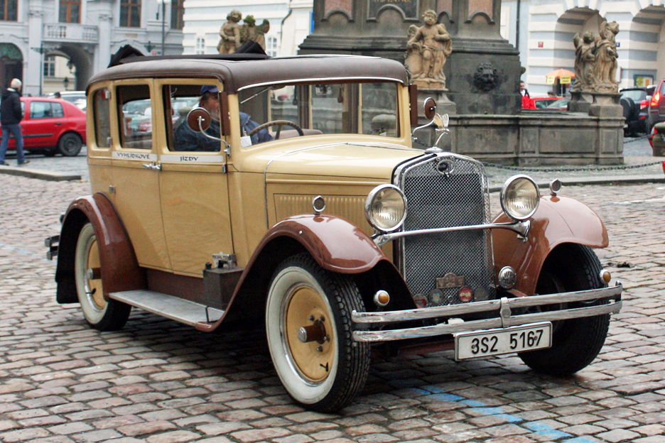 Škoda 422 automobile in Prague, Czech Republic